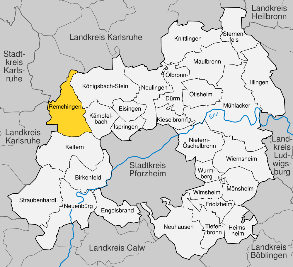 position of Remchingen within distict of Enzkreis, Baden-Württemberg, Germany